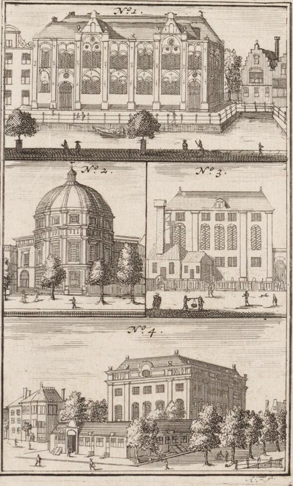 Engraving with 4 religious buildings of Amsterdam; top: Lutheran church on the Spui, middle left: Round Lutheran Church on the Singel, middle right: Great Synagogue, bottom: Portuguese Synagogue